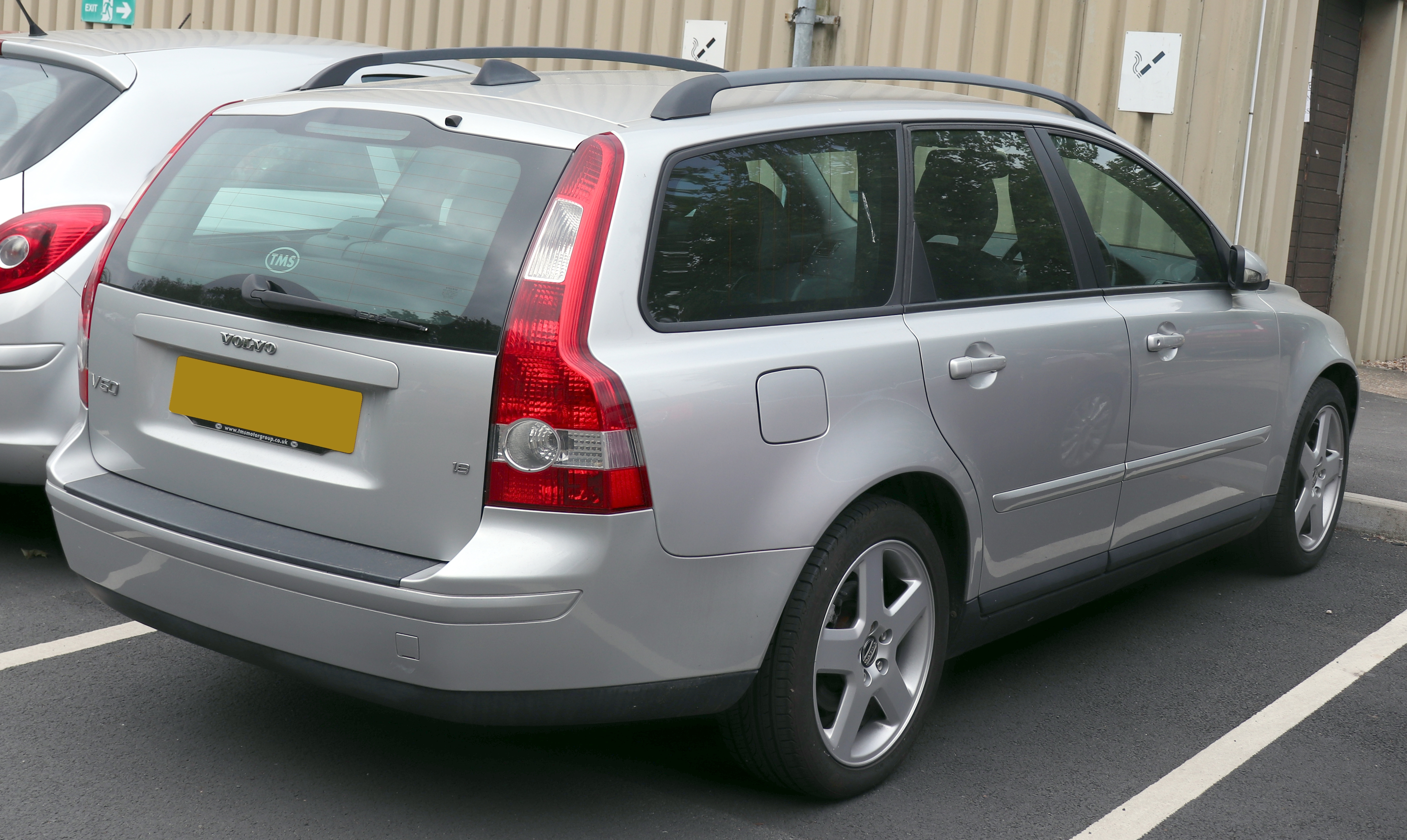 2005 Volvo V50 SE 1.8 Rear Taken in Leamington Spa